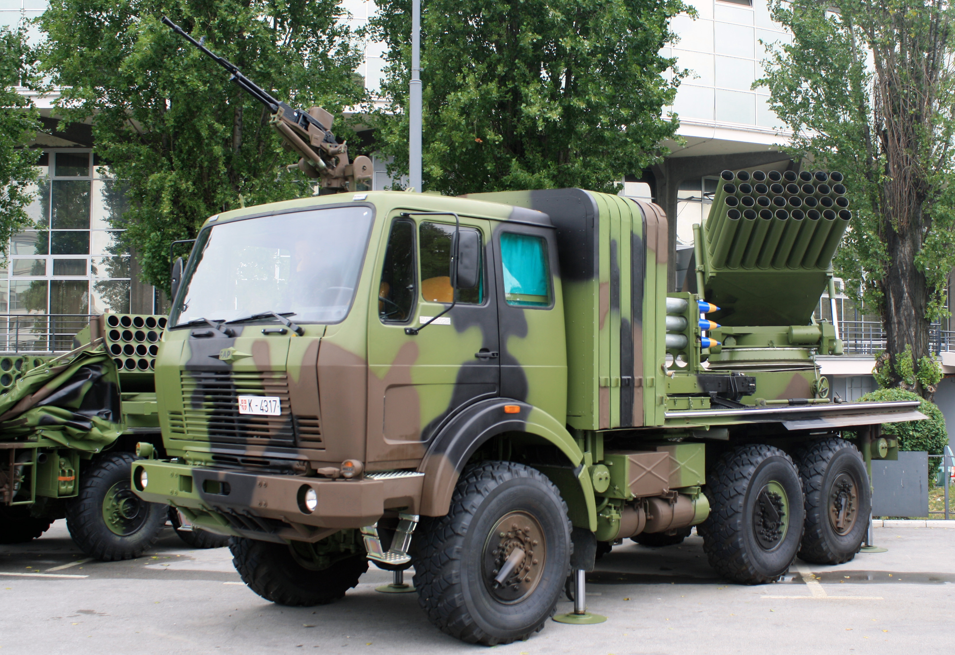 M77 Oganj 128mm multiple rocket launcher of Serbian Army on display at "Partner 2011" military fair.